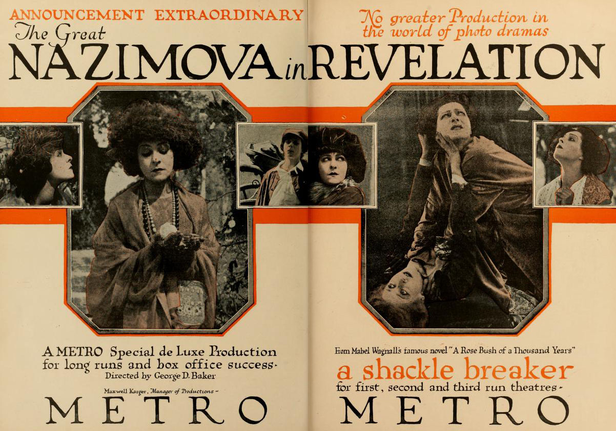 Advertisement in The Moving Picture World for the film Revelation (1918).